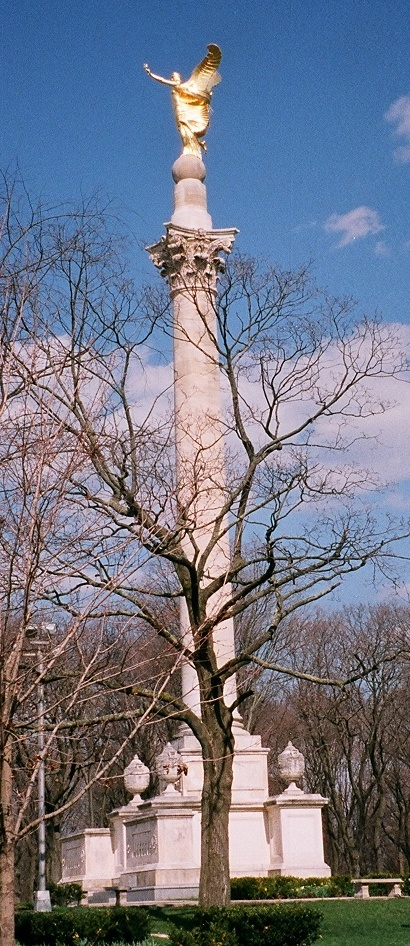 Bronx Victory Column, Pelham Bay Park